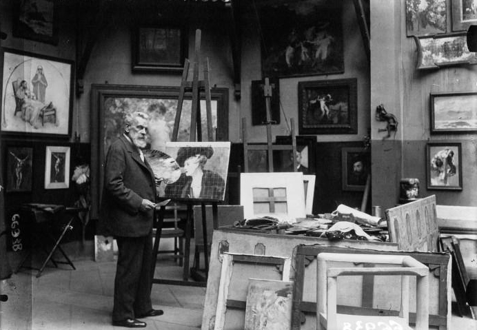 French painter Alfred Roll (1846-1919) in his atelier in 1918.